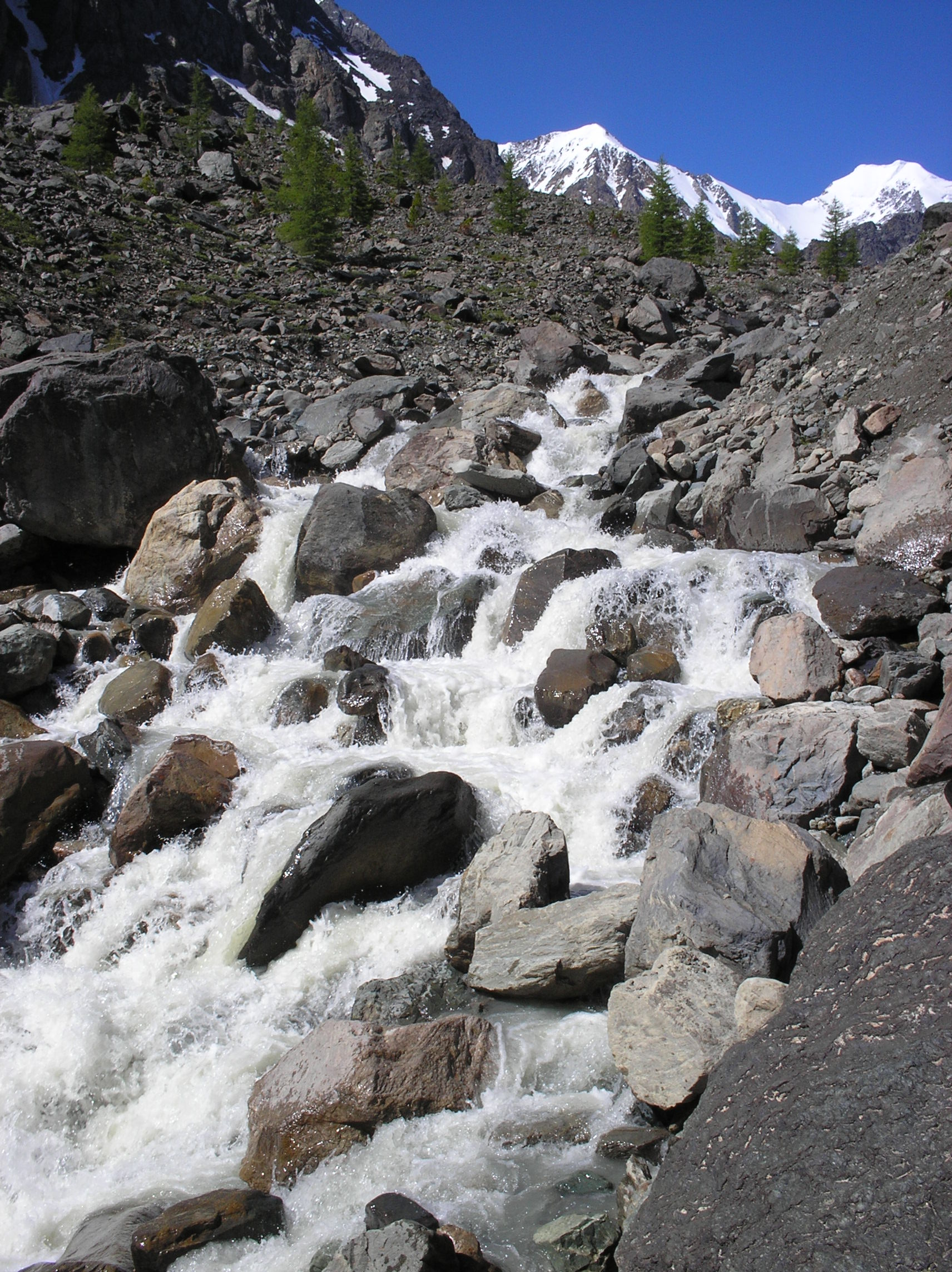 Bolshoy Akturu (Aktru) River in Kosh-Agachsky District of the Altai Republic